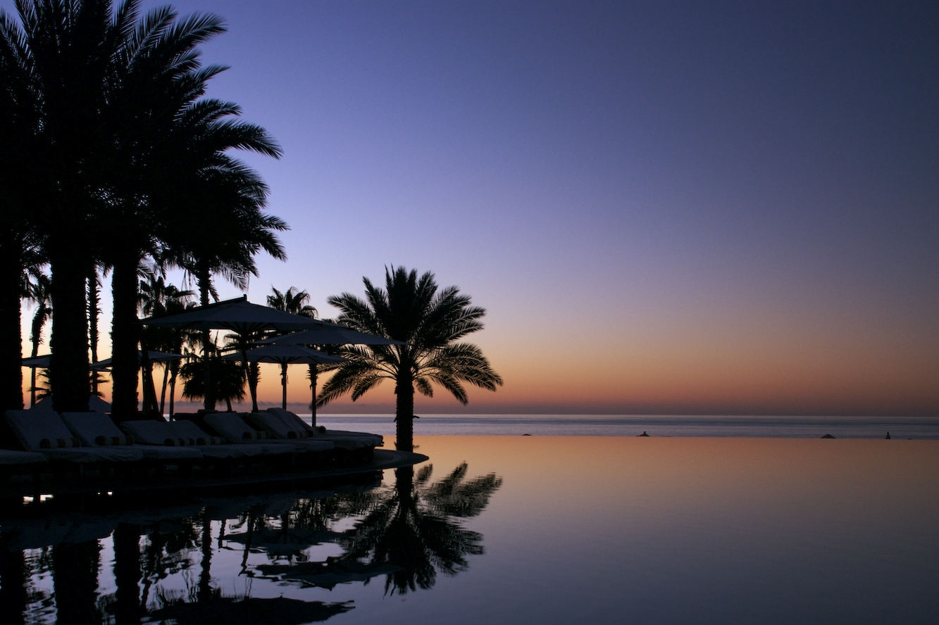 infinity pool at dawn